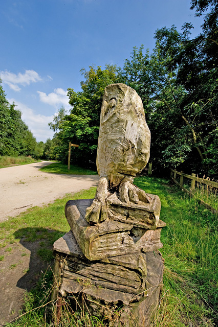 Owl Sculpture - Three Sisters Recreation Area Carved out of a single chunk of tree trunk